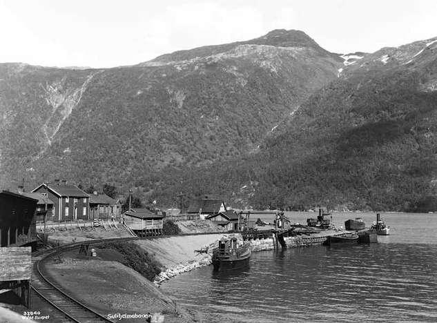 Sjønstå, at the end of The Sulitjelma Line. Sulitjelma in Fauske, Norway